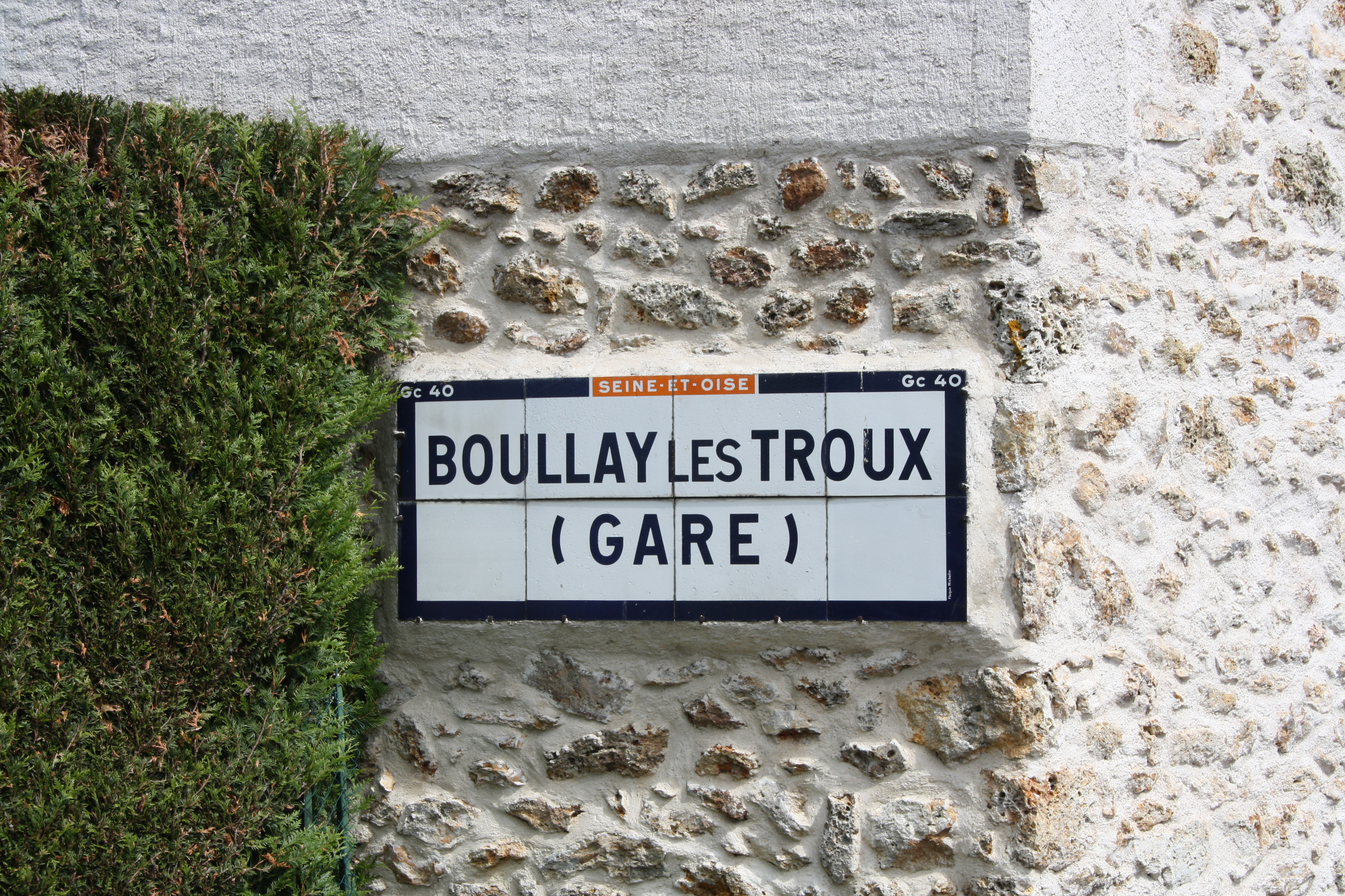 The la gare de Boullay is a lieu-dit located in the commune of Boullay-les-Troux in France.